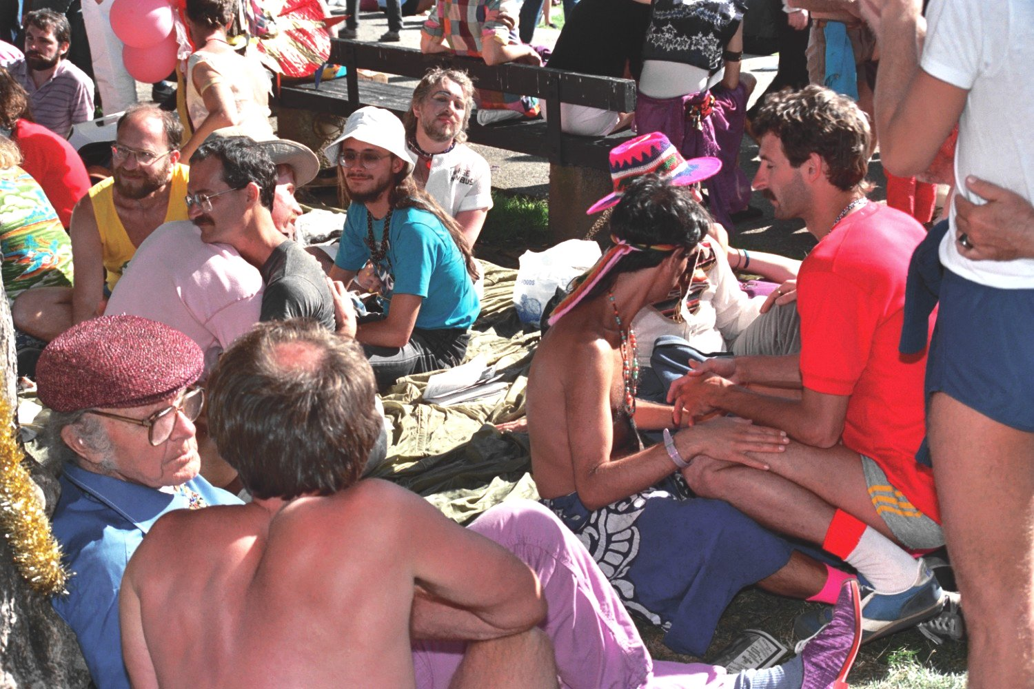 Harry Hay - lower left (wearing cap) - San Francisco, June 1986